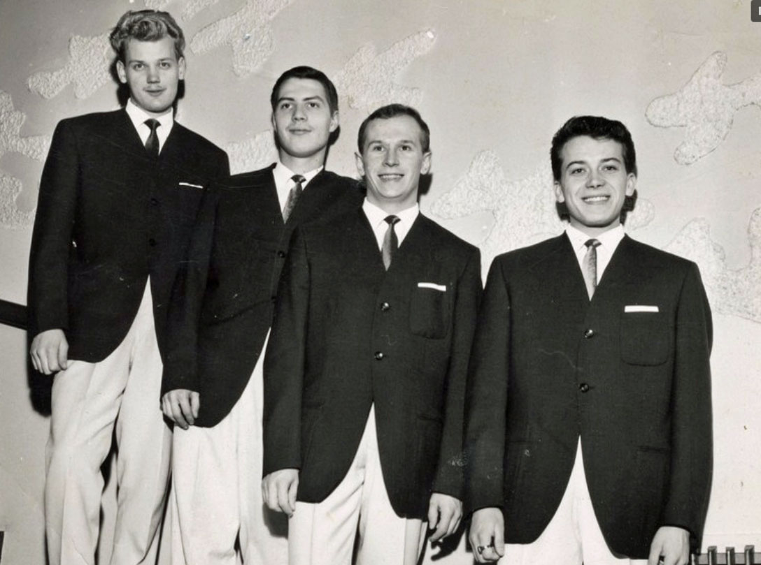 From right: Raimo Rantanen (piano, accordion), Risto Taubert (drums), Timo Peltoniemi (bass), Pekka Hyvönen (alto sax, clarinet).